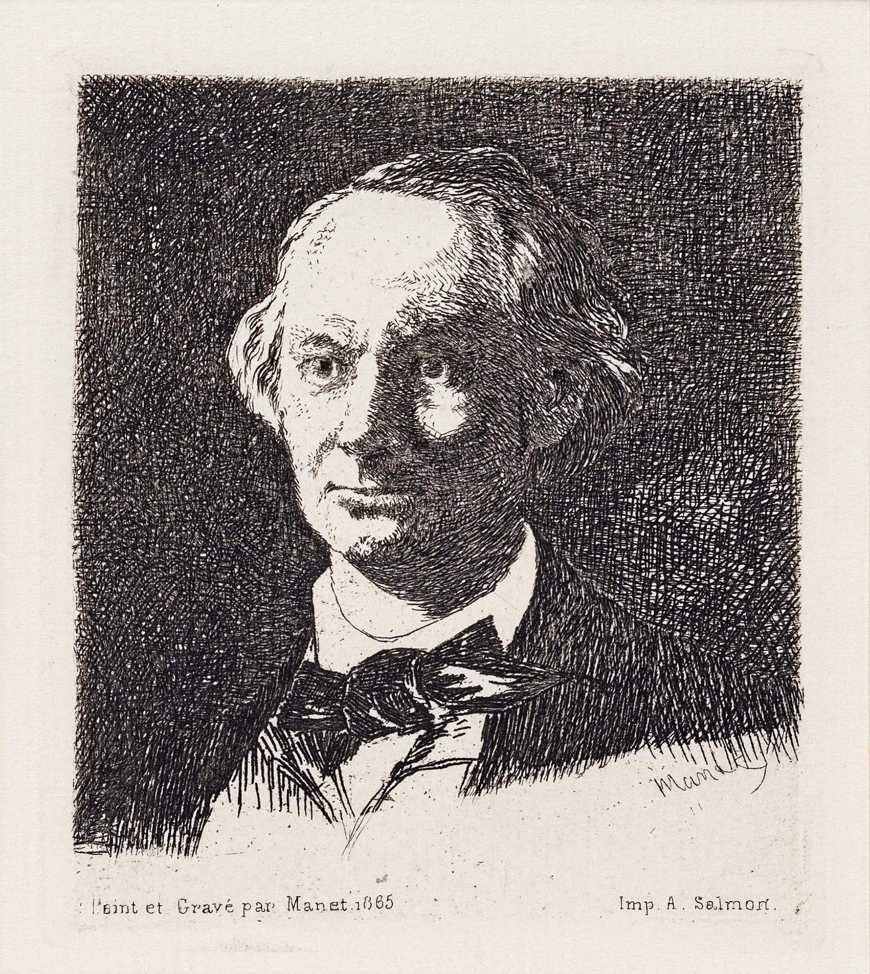 Offered for sale by Abbott and Holder in March 2020 when it was described as "Portrait Charles Baudelaire, de face’ (Harris.61iv) (Guerin.38iv). Etching on laid paper. Dated 1865. Printed by A Salmon from 1869. 3x3 inches."